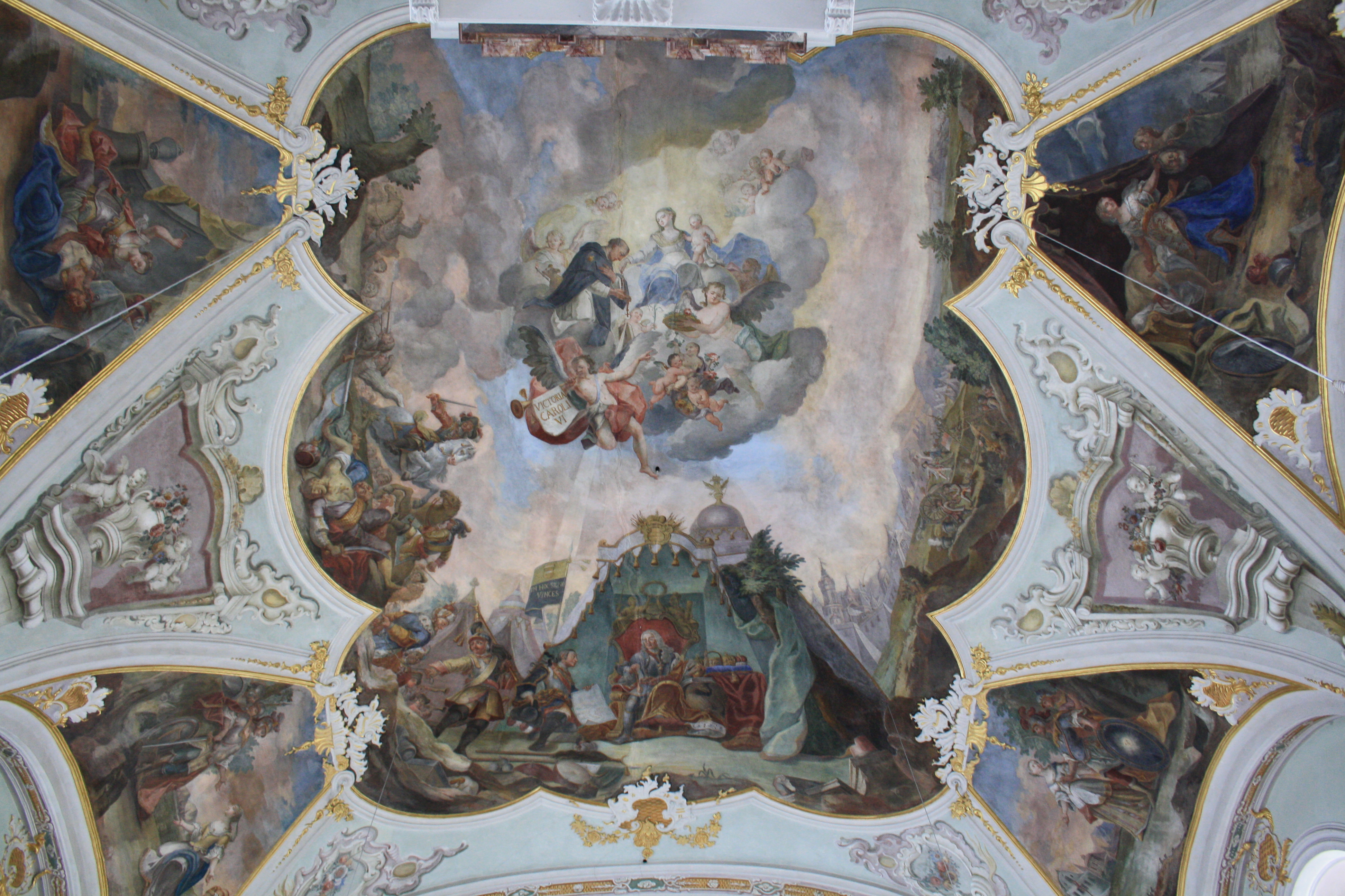 Austria , Tyrol (state), Pfons, Mariä Himmelfahrt. The ceiling with frescos by Joseph Adam Ritter von Mölk.